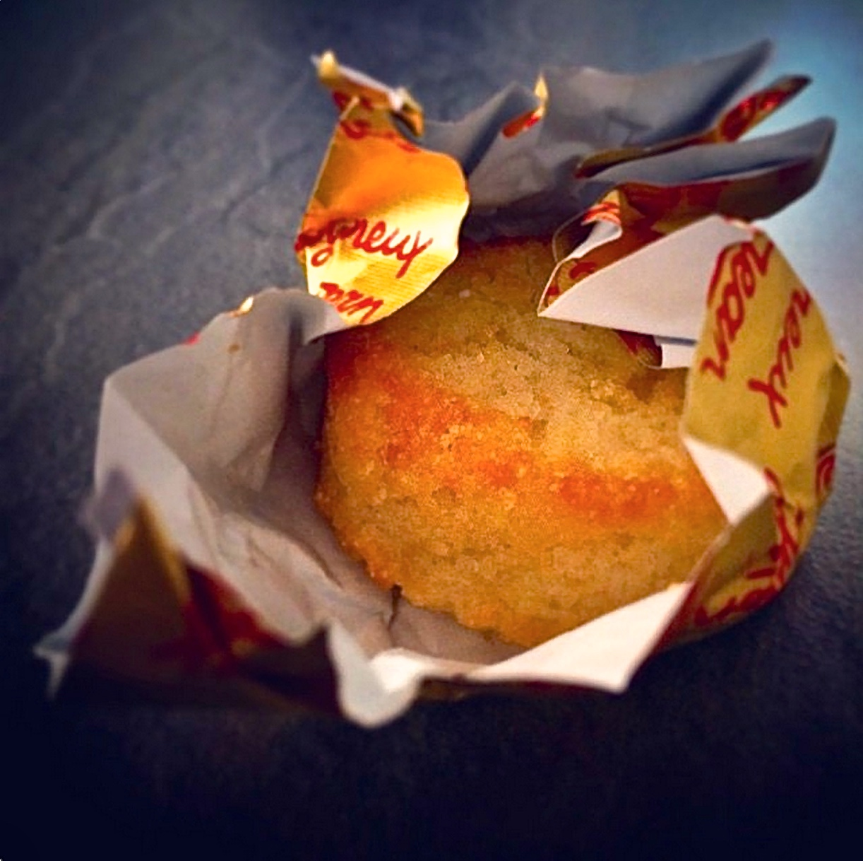 The famous macaron d'Amiens by jean trogneux